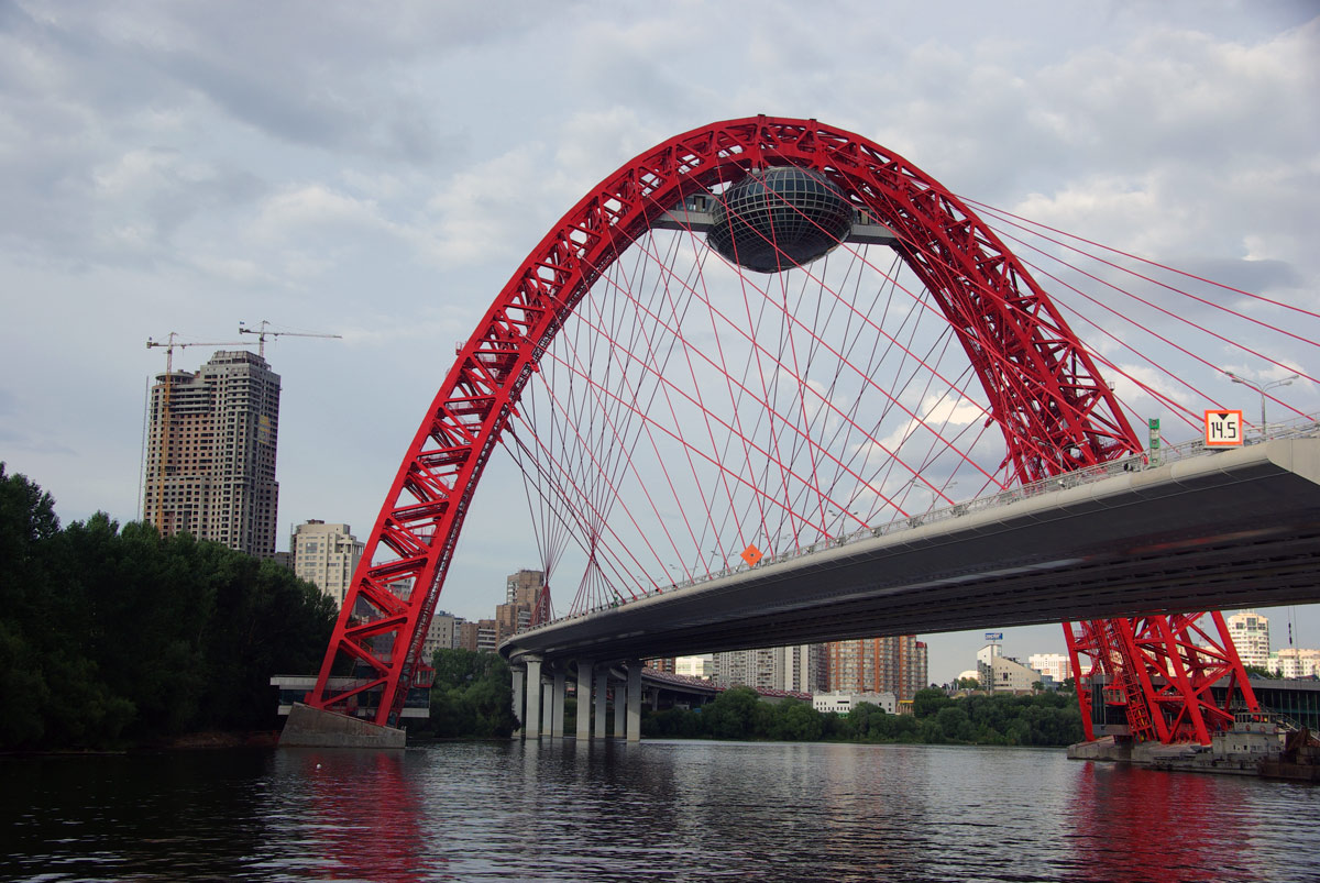 Живописный мост, Zhivopisny Bridge over the Moskva River, Moscow, Russia